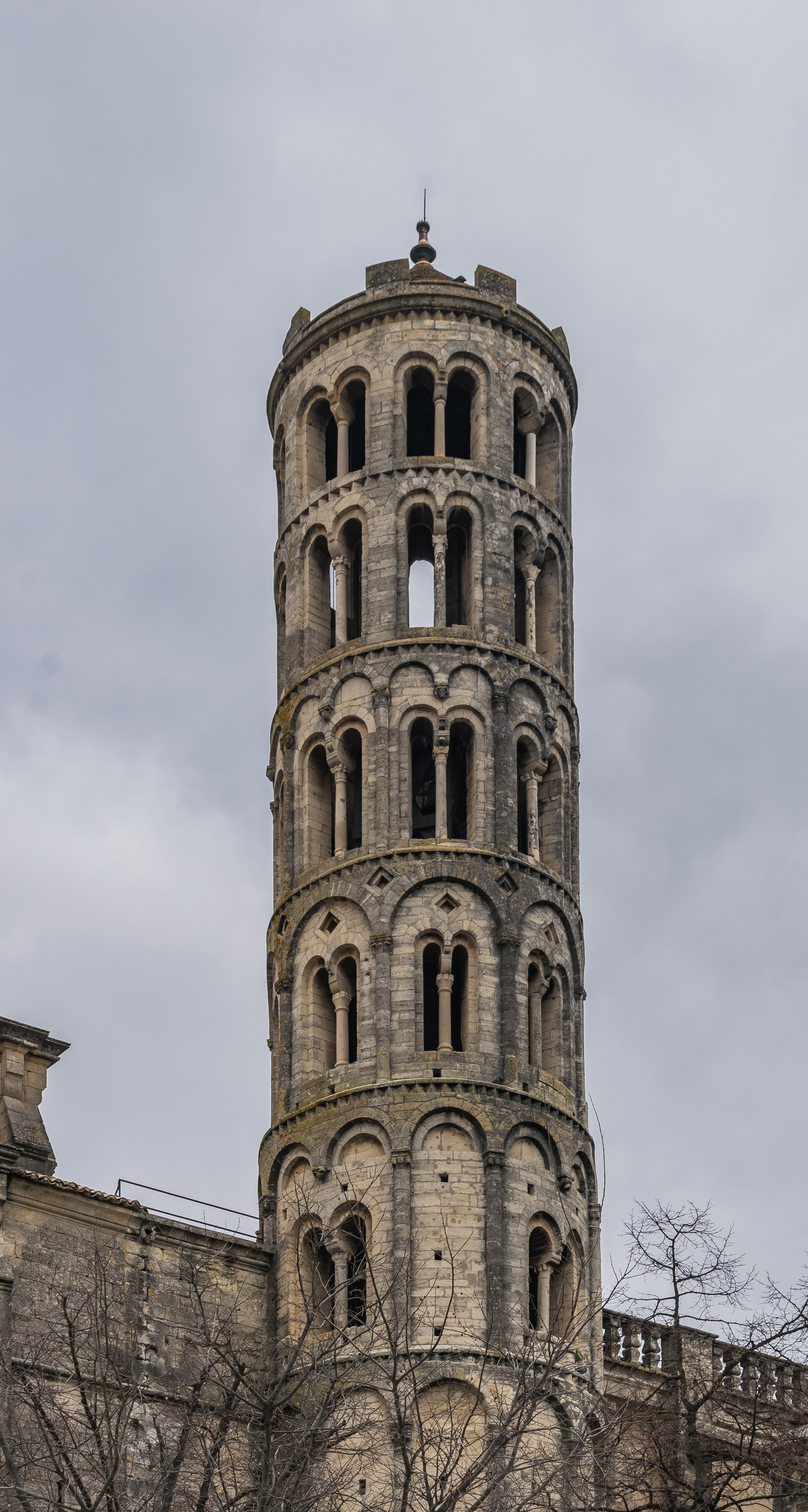 Tower of the Saint Theodore of Amasea cathedral of Uzès, Gard, France .